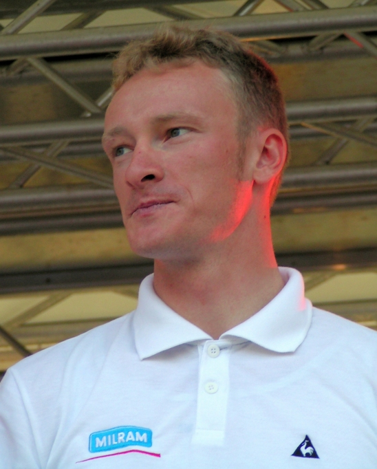 The German racing cyclist Daniel Becke at the team presentation for the Deutschland Tour 2006 in Düsseldorf, Germany.